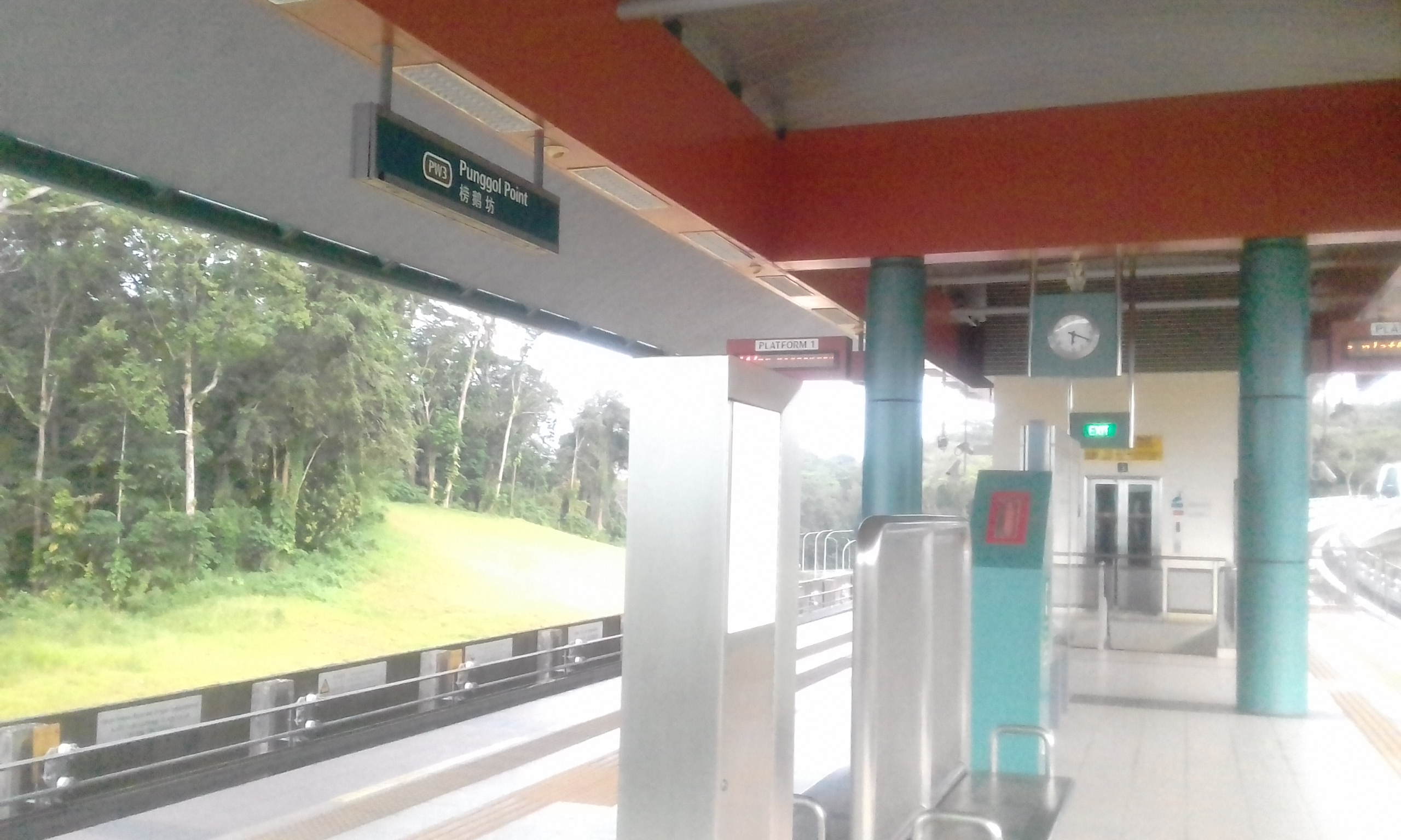 Punggol Point Platform